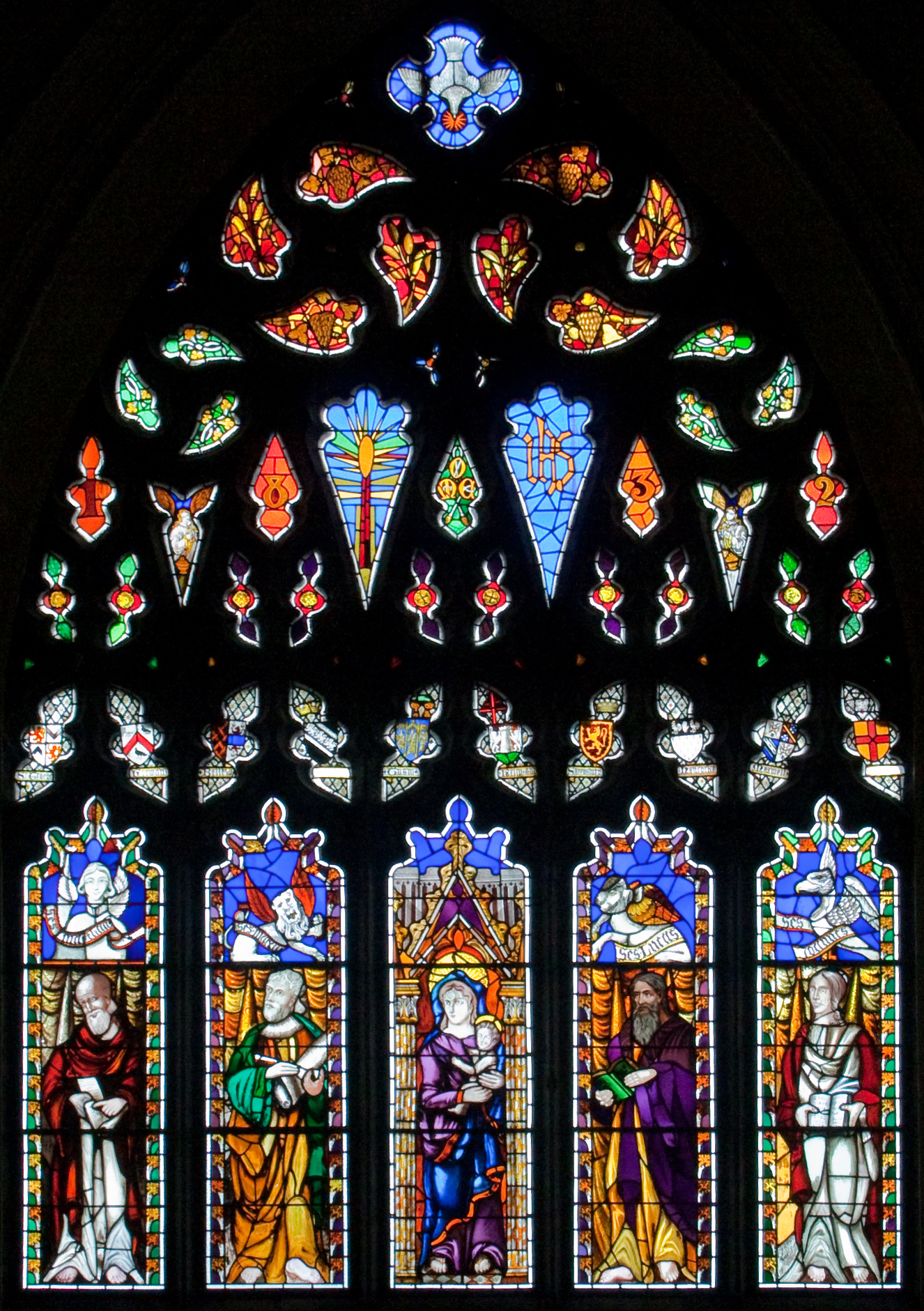 Tuam Cathedral of the Assumption, County Galway, Ireland Upper part of the stained glass window in the chancel. This window was designed by Michael O'Connor of 80 Dame Street, Dublin, in 1832 for £240. The window was restored by the Abbey Stained Glass Studios in Dublin. The lowest shown row of lights depicts the Blessed Virgin Mary (middle window) and the Four Evangelists: Matthew, Mark, Luke, and John (from left to right). The next row of ten small lights show the coat of arms of families who helped to finance the cathedral. Among them were Bellew, Blake, Browne, Handcock, Kirwan, Newell, St. George, Shrewsbury, and others. One row of four small orange windows shows the year 1832. Please note that the lowest section of this window is not shown on this photograph as it is obscured by a screen which was erected in 1992. (See Peter Galloway: The Cathedrals of Ireland, ISBN 0-85389-452-3, p. 213–216, and Séan Spellissy: The History of Galway, ISBN 0-9534683-4-8, p. 238–239.)